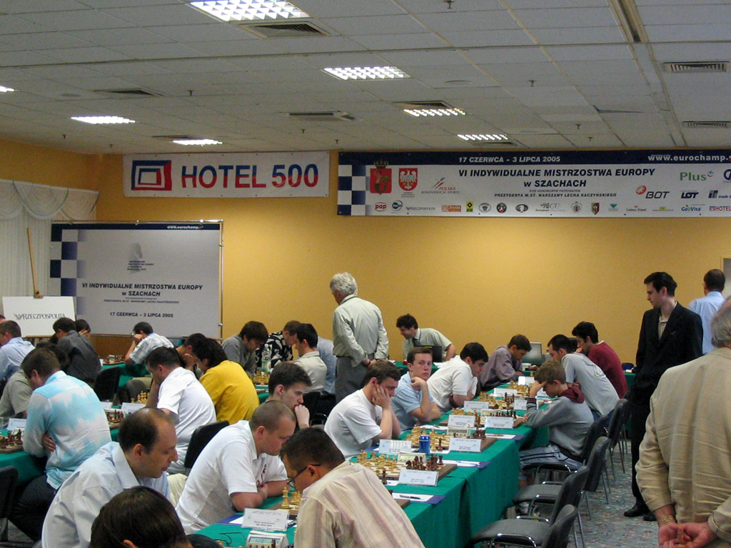 The hall of game, European Championship, Warsaw 2005